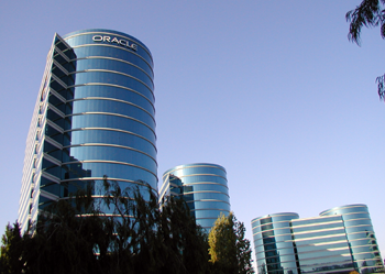 Oracle Corporation world HQ